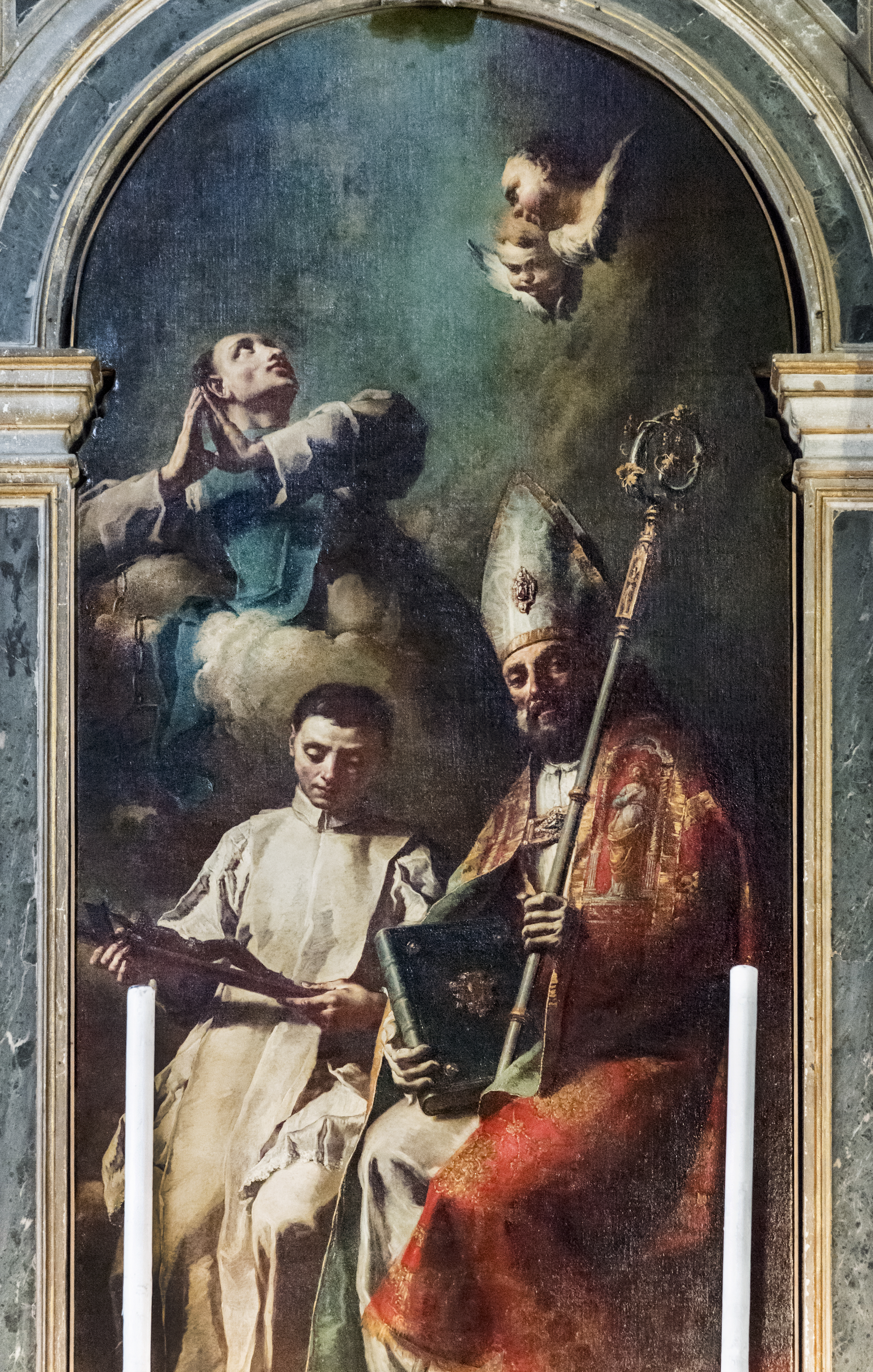 Church of San Salvador, in Venice - Altar of Saint Nicholas - It was originally dedicated to St. Nicholas in 1751 and was rebuilt after a fire that had occurred ten years earlier, which had destroyed the Barco above the main gate. The altarpiece shows a painting depicting St. Nicholas, St. Leonard and Blessed Arcangelo Canetoli. This painting was started by Giovanni Battista Piazzetta and finished by Domenico Maggiotto.